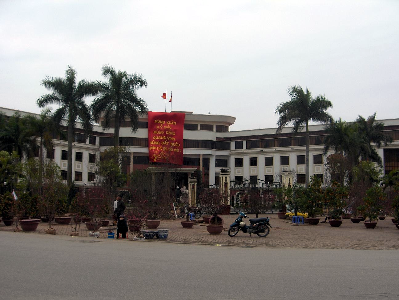 Addministrative office of government in Tay Ho district, Hanoi, Vietnam